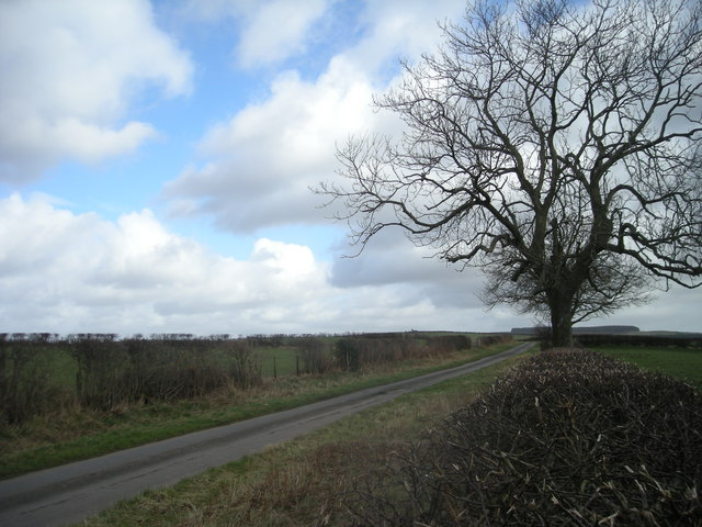 Lane near Rockhill